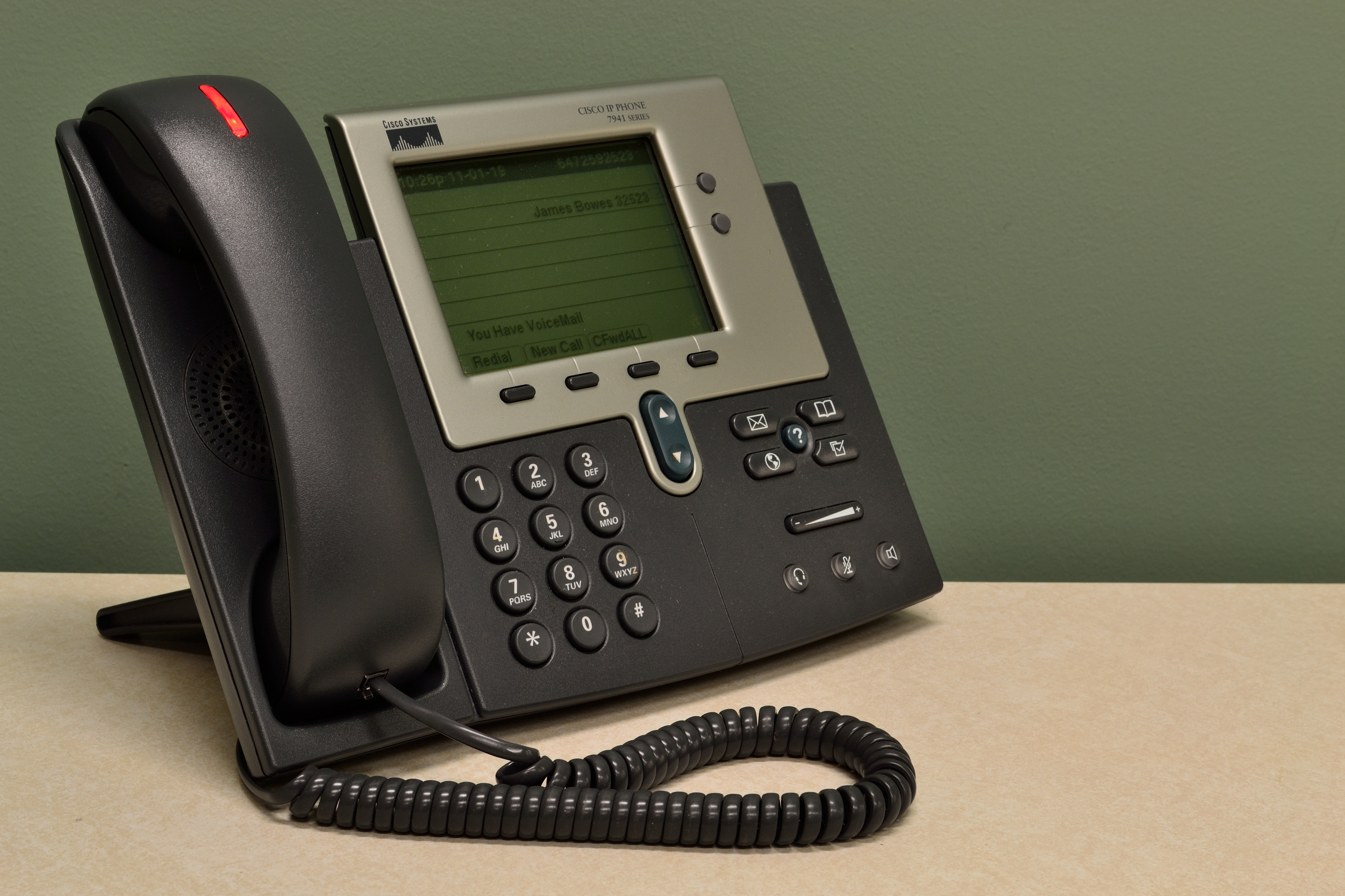 Cisco IP Phone 7941 Series